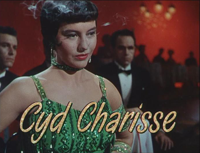 Portrait of Cyd Charisse from Singin' in the Rain trailer